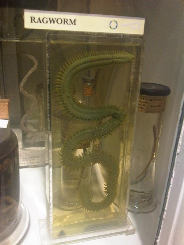 Unidentified Nereididae sp. in Grant Museum of Zoology, London, England.